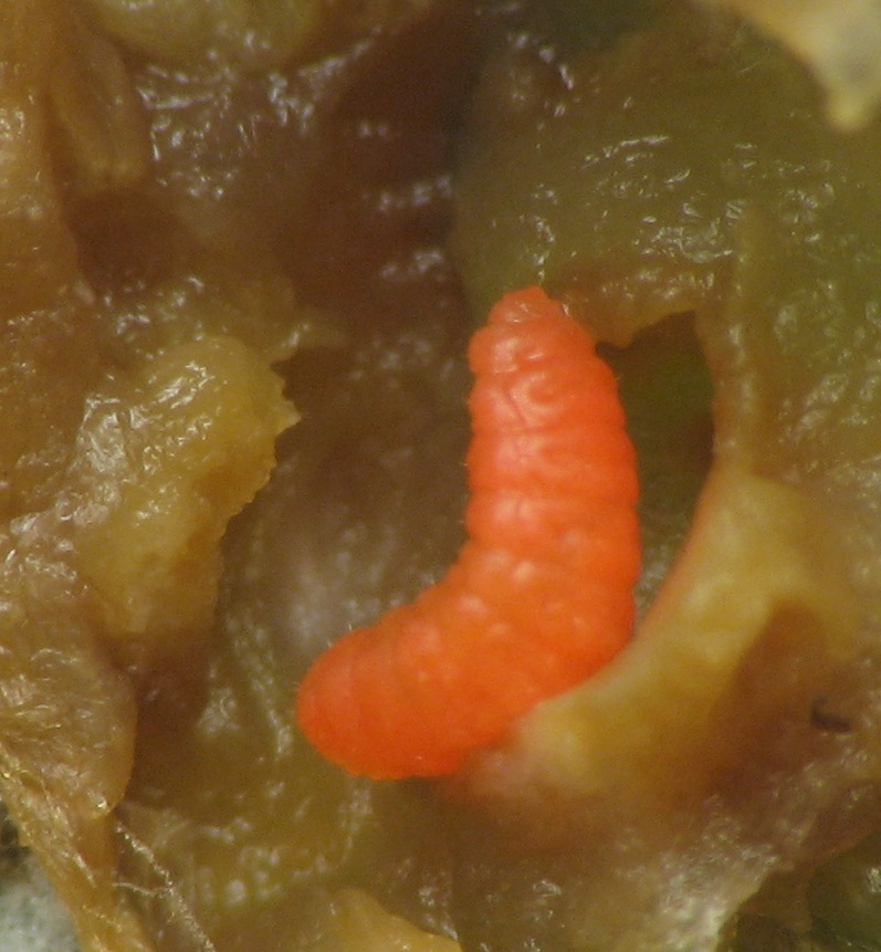 Gall midge (Vitisiella) larva in gall in Vitis. Josie Porter Farm - Stroud Township, Monroe County, Pennsylvania, USA.